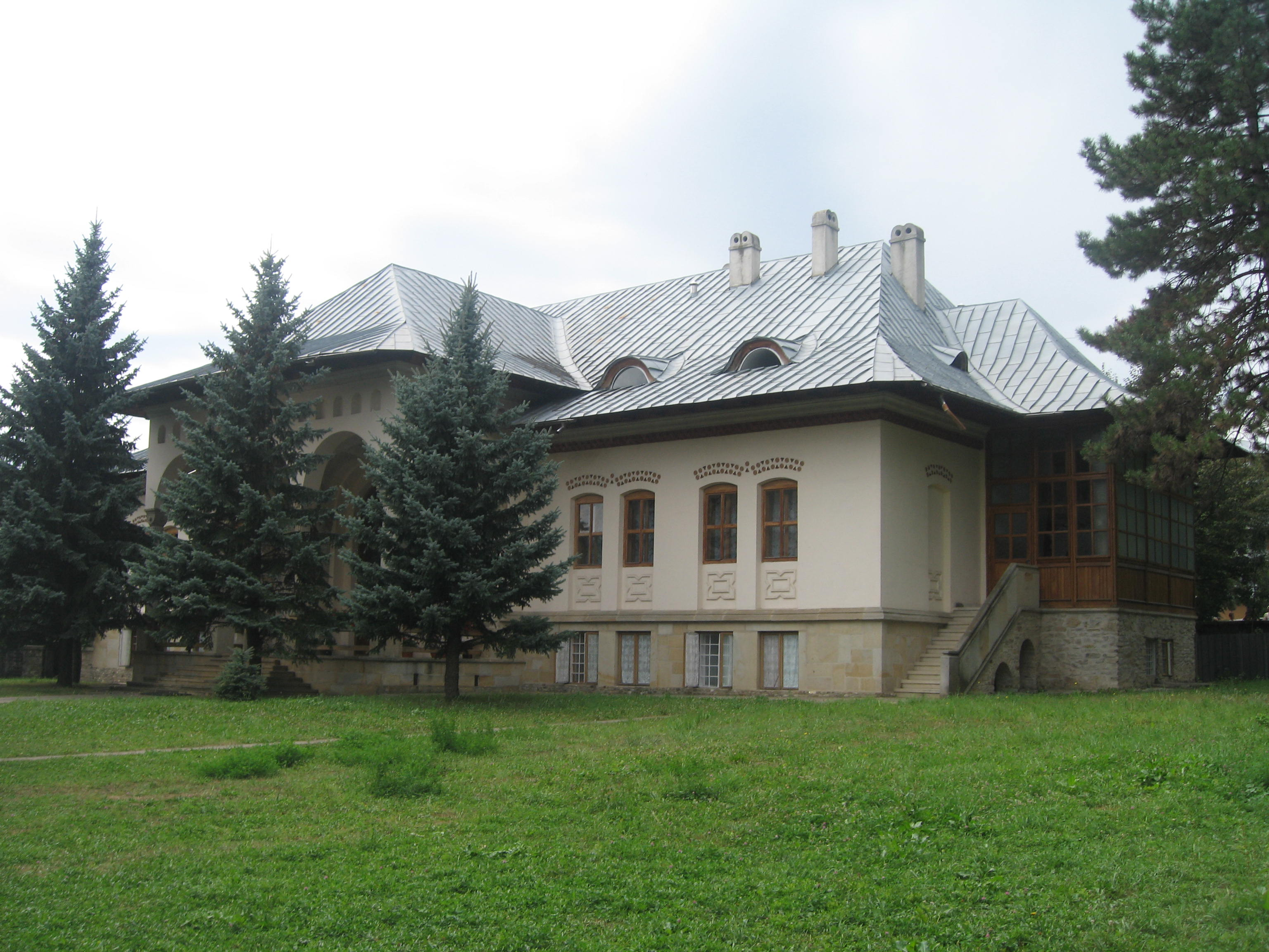 St. John the New Monastery in Suceava - the abbot residence.